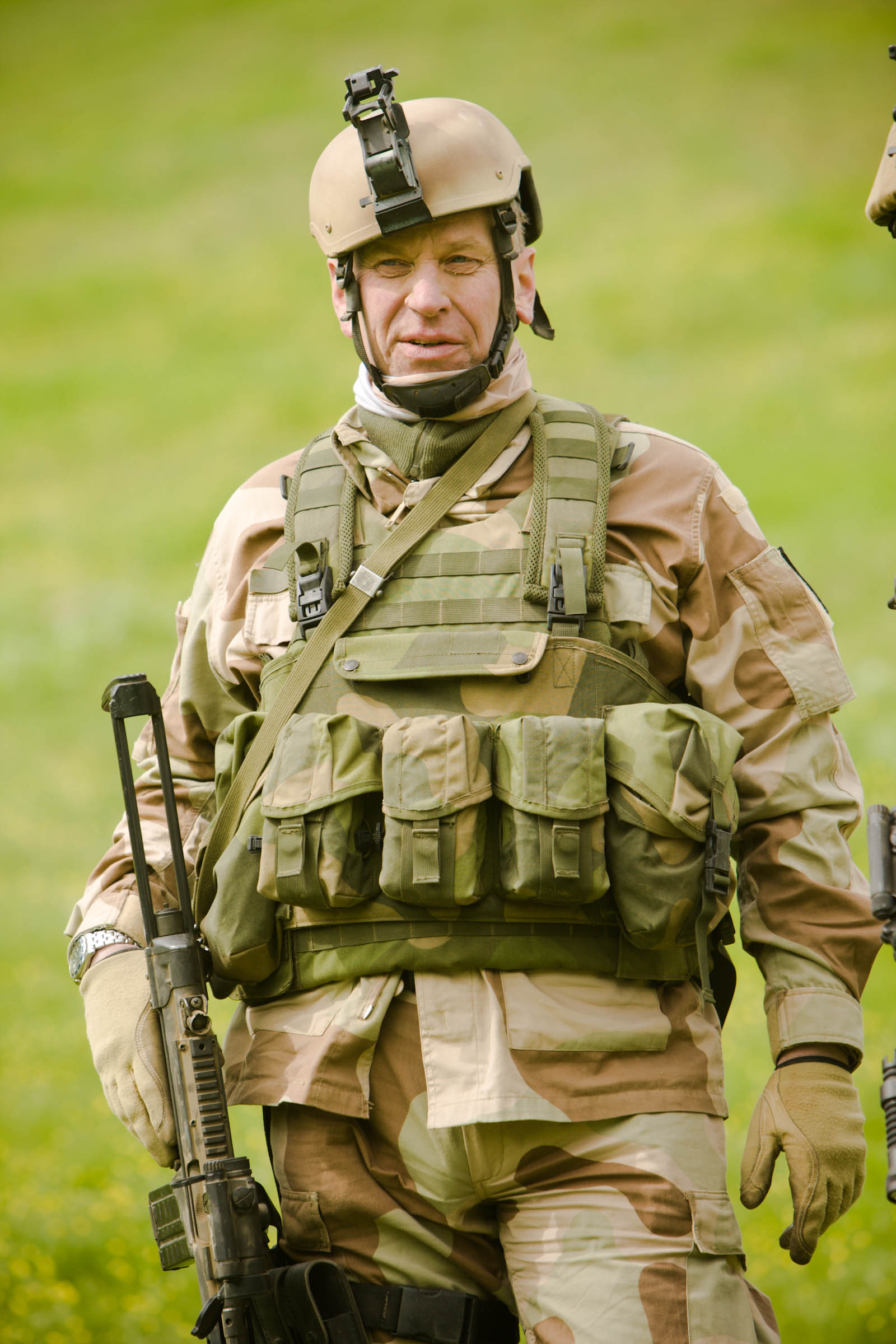 Commander of the Norwegian Army, general Per Sverre Opedal visiting the Norwegian soldiers in Faryab